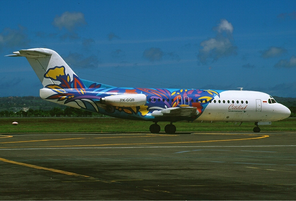 Citilink Fokker F-28-4000 Fellowship